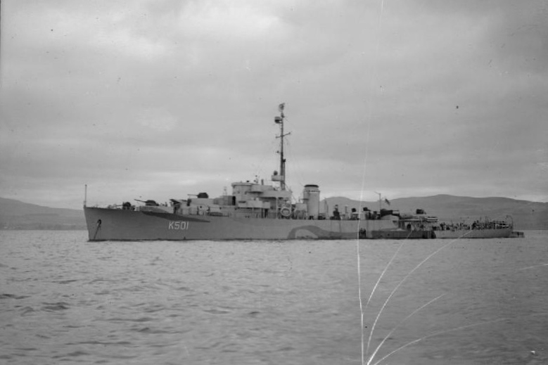 Photograph of British Colony class frigate HMS Antigua.